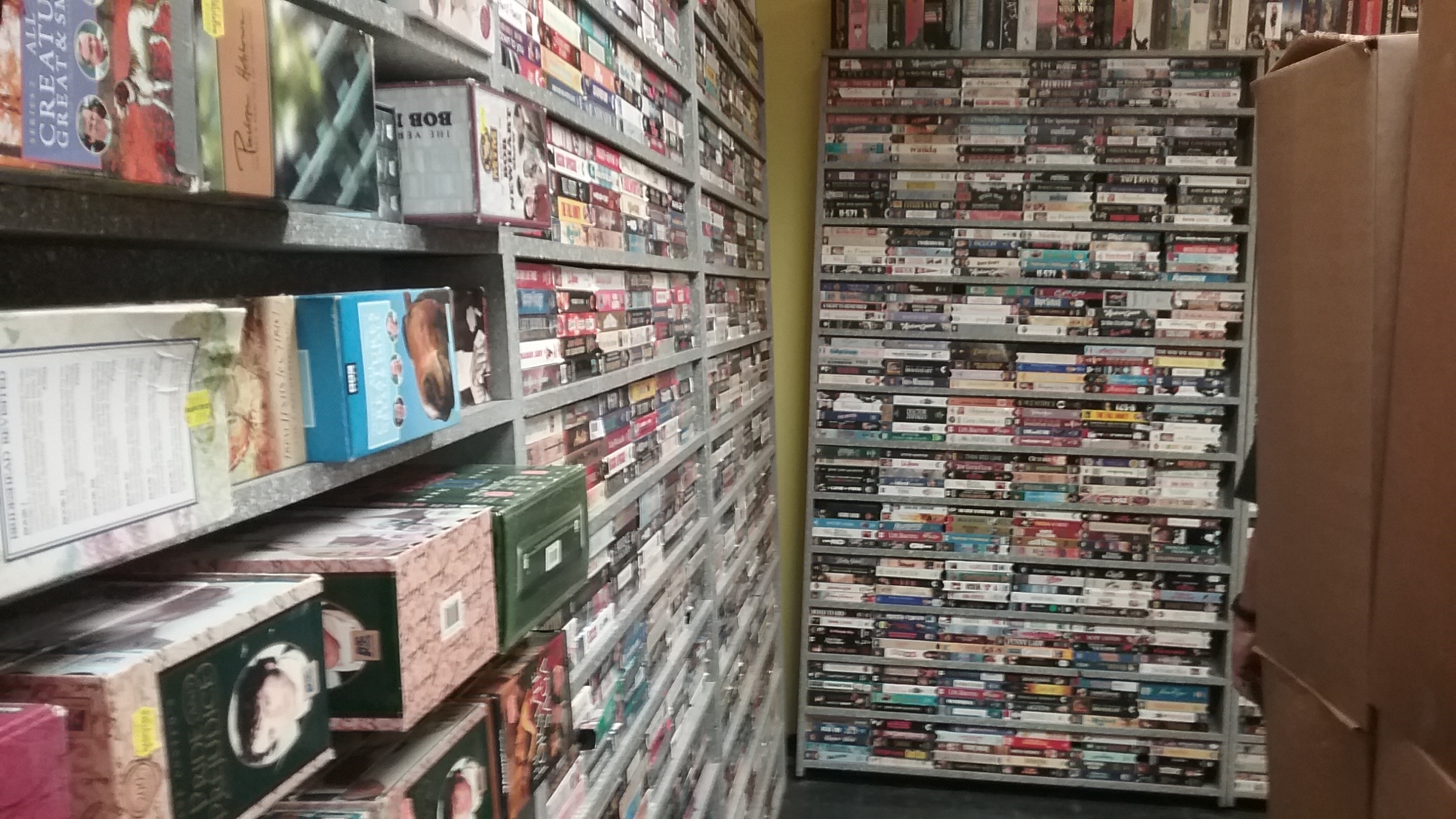 Used VHSs at Rasputin Music (Fresno, CA)